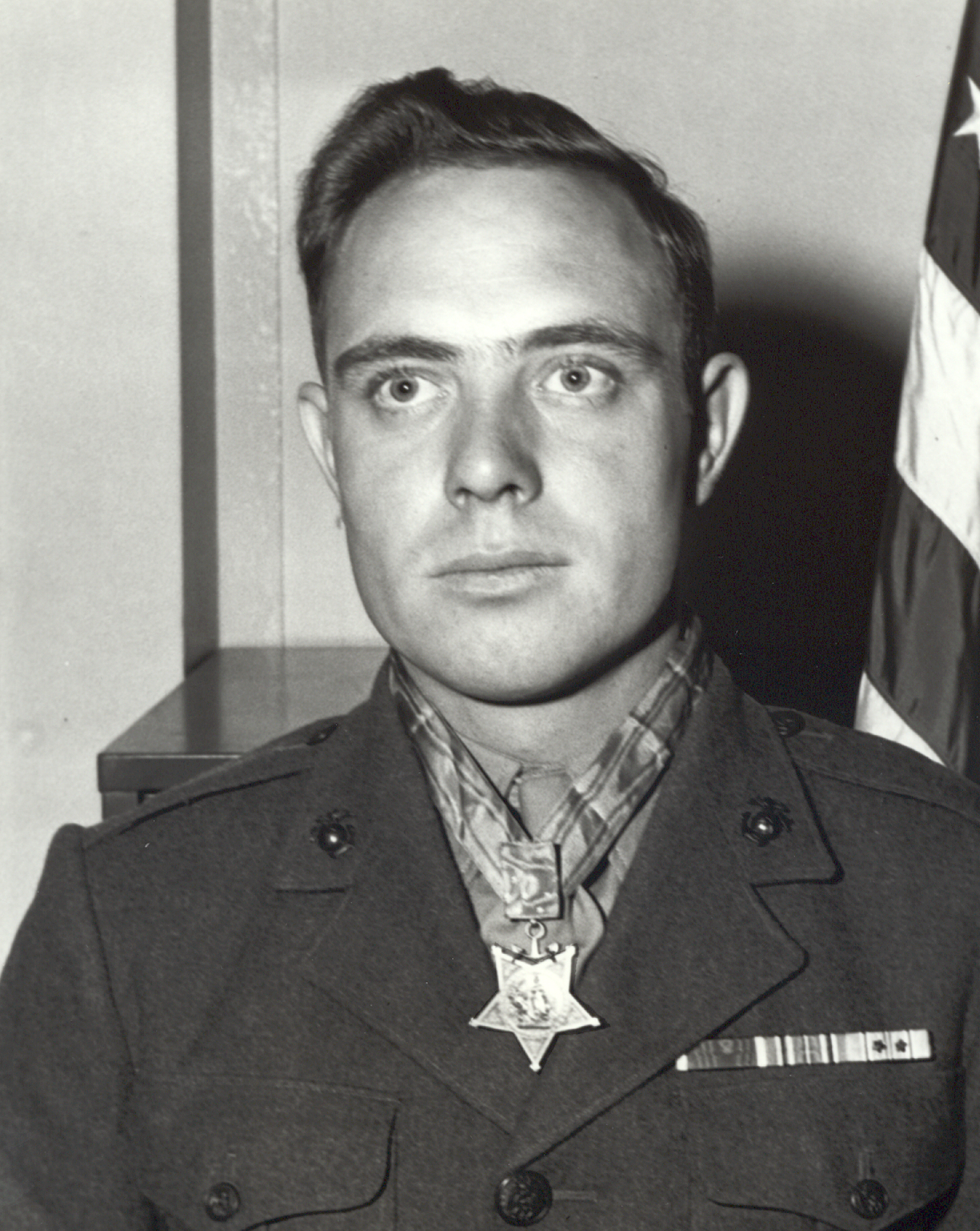 Hershel W. Williams, USMC, Medal of Honor recipient, for actions during the Battle of Iwo Jima; image from official Marine Corps biography